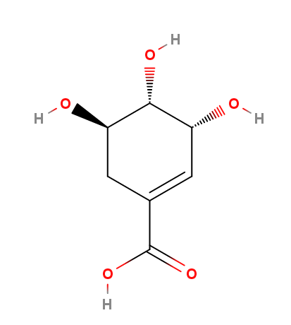 levarotary enantiomer of shikimic acid, a compound that is occasionally found in edible mushrooms